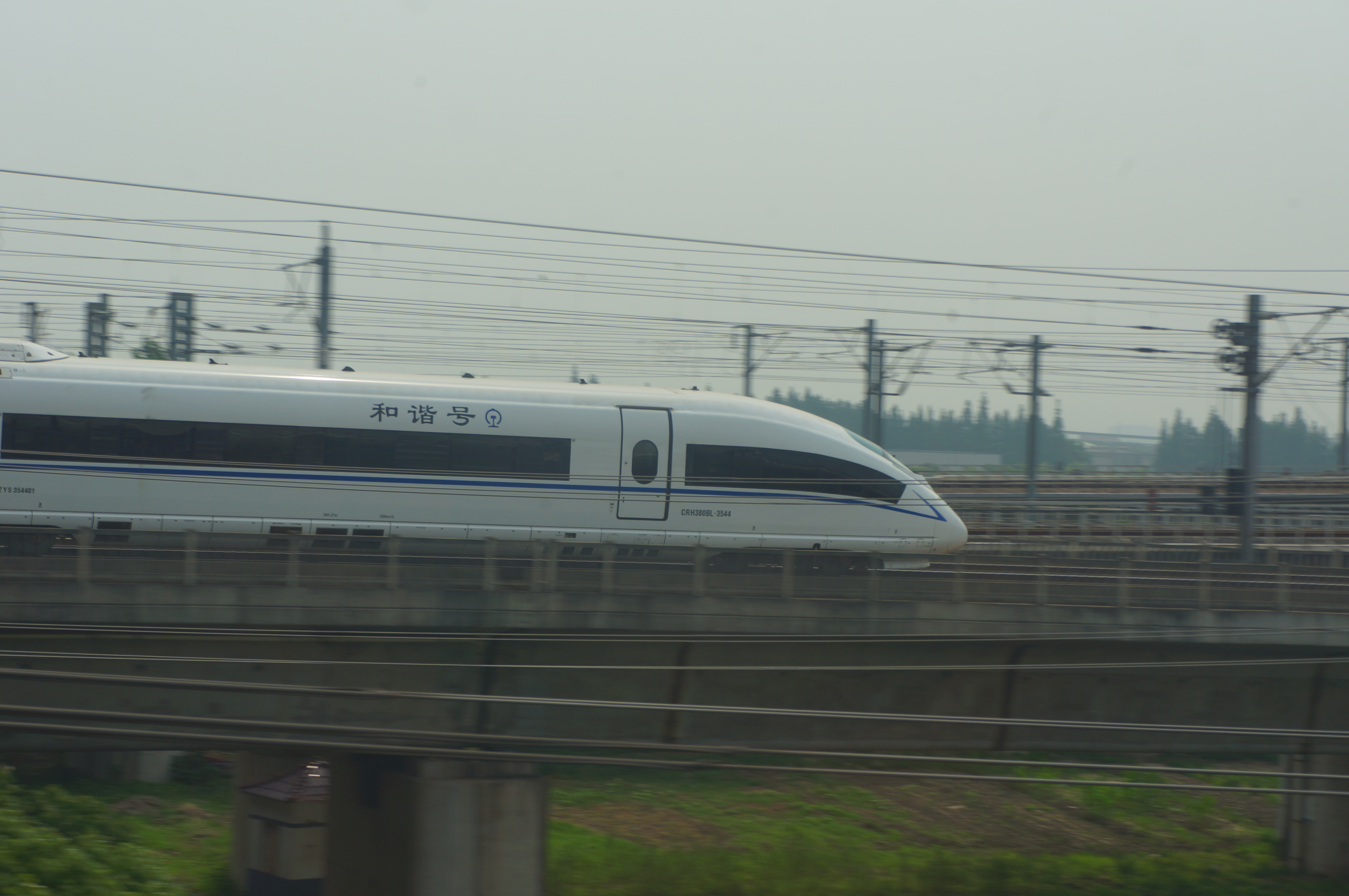 201706 CRH380BL-3544 for G1806 (Shanghai Hongqiao to Zhengzhoudong) near Shanghai Hongqiao Station